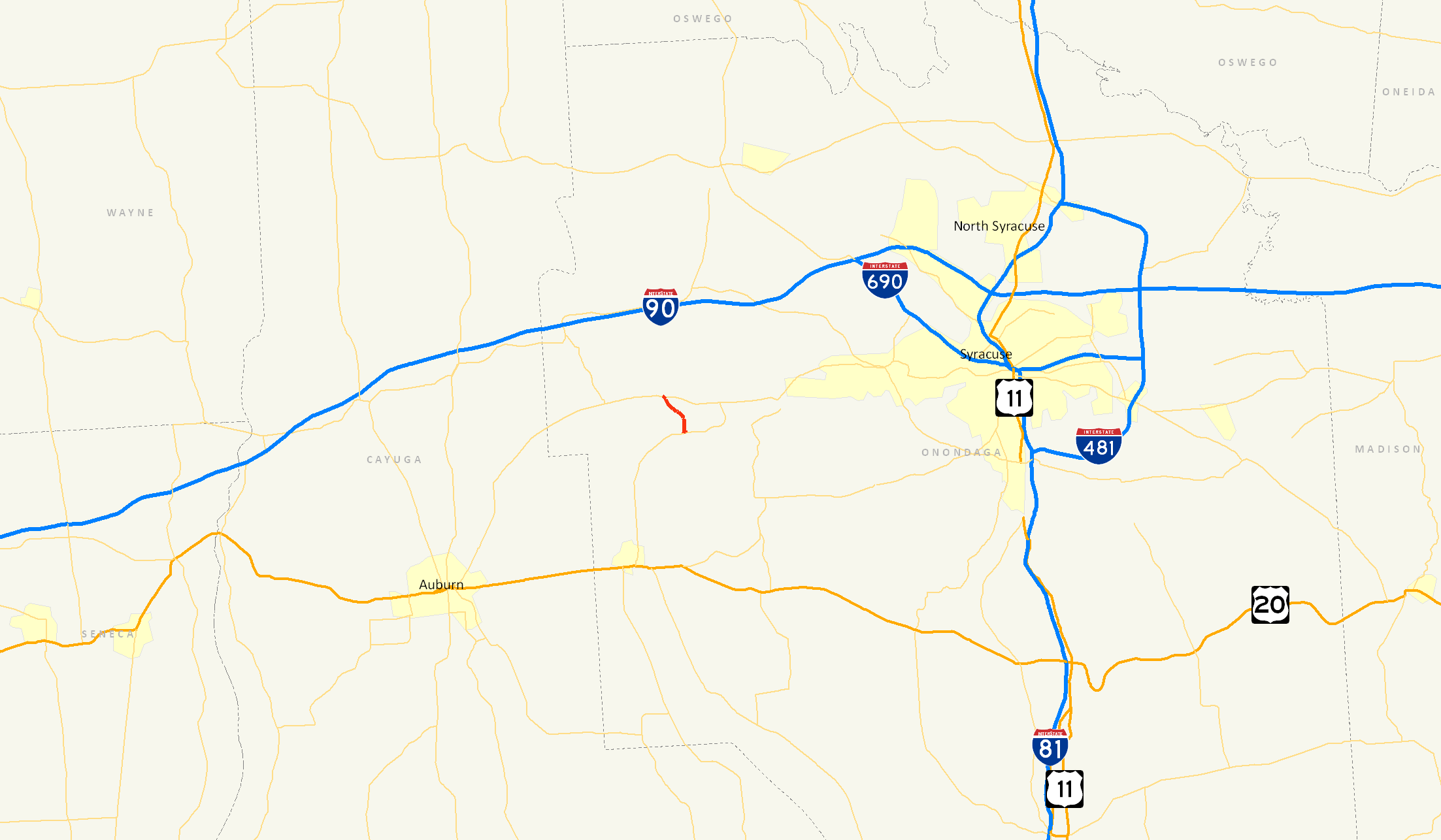 Map of New York State Route 368